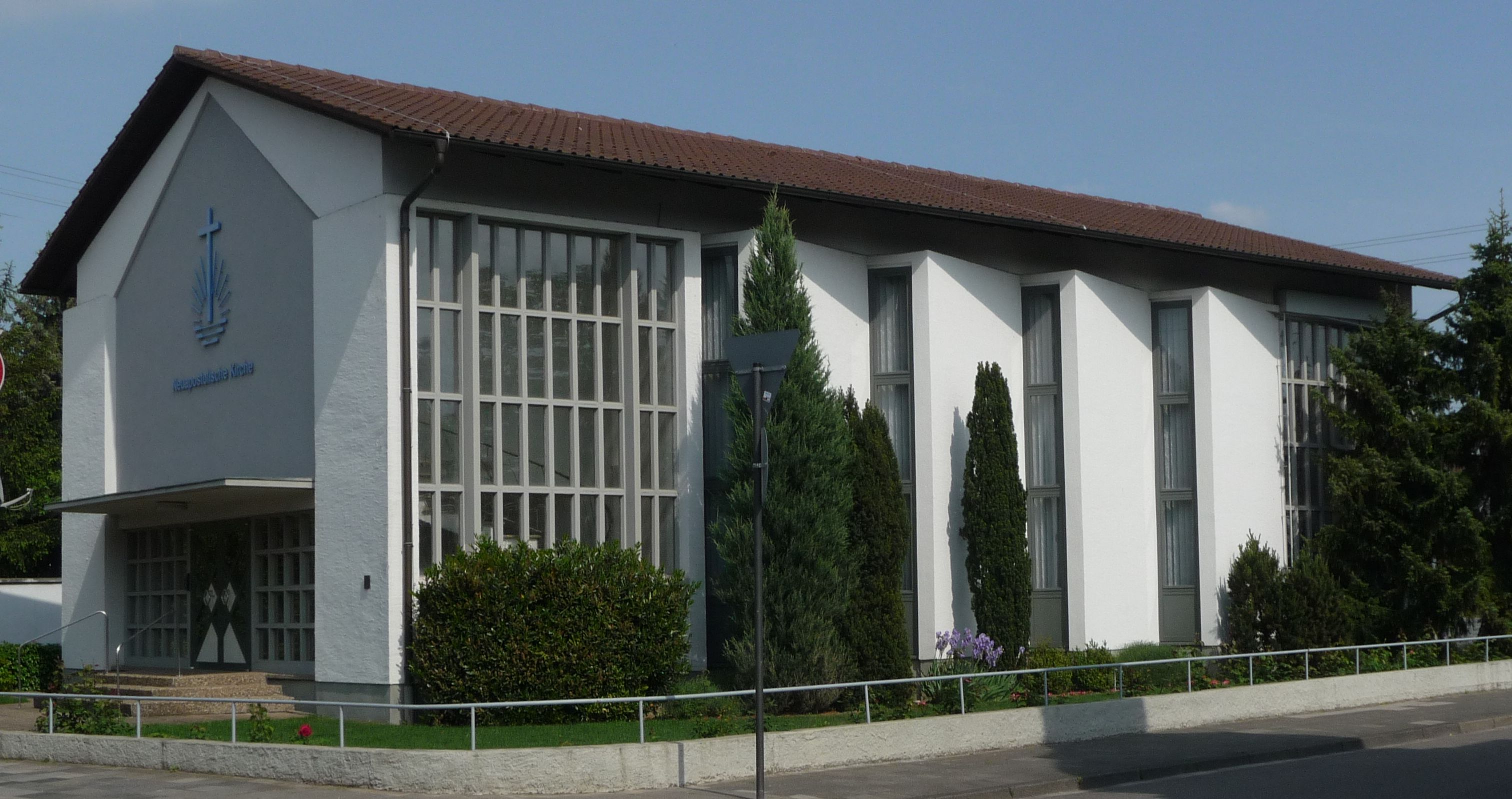 church in Ludwigshafen, Germany